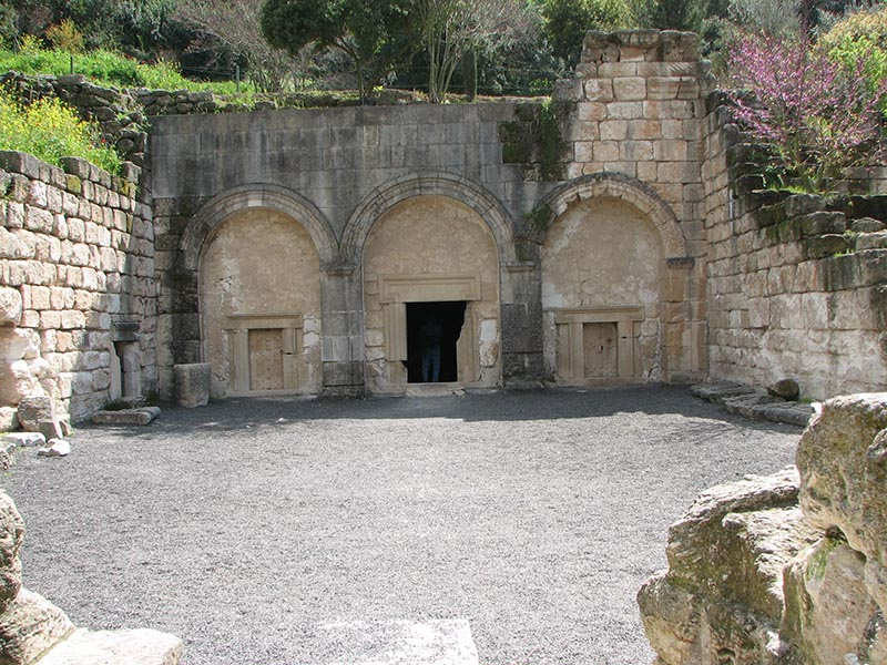 Entrance of the Cave of Coffins, in the Bet Shearim National Park (Israel)